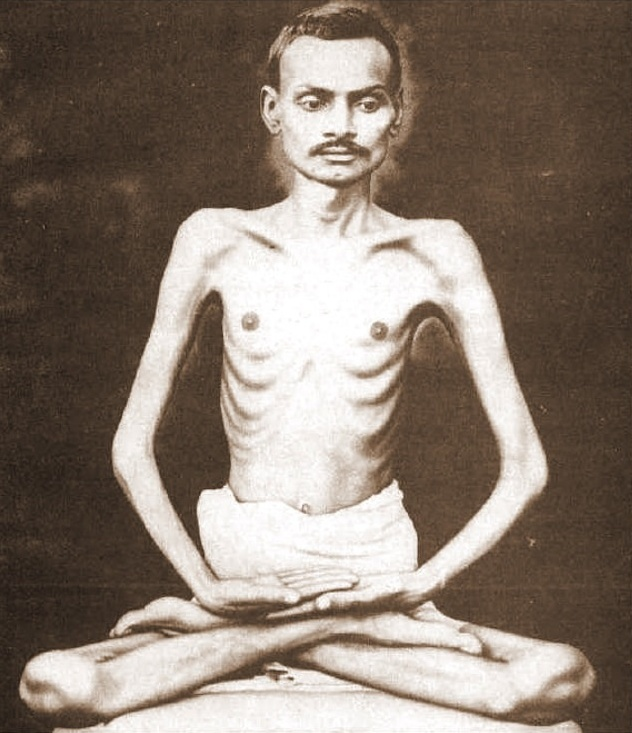 Shrimad RajChandra (1867 - 1901 CE) was one of the reformers of Jainism. He was also spiritual guru of Mahatma Gandhhi